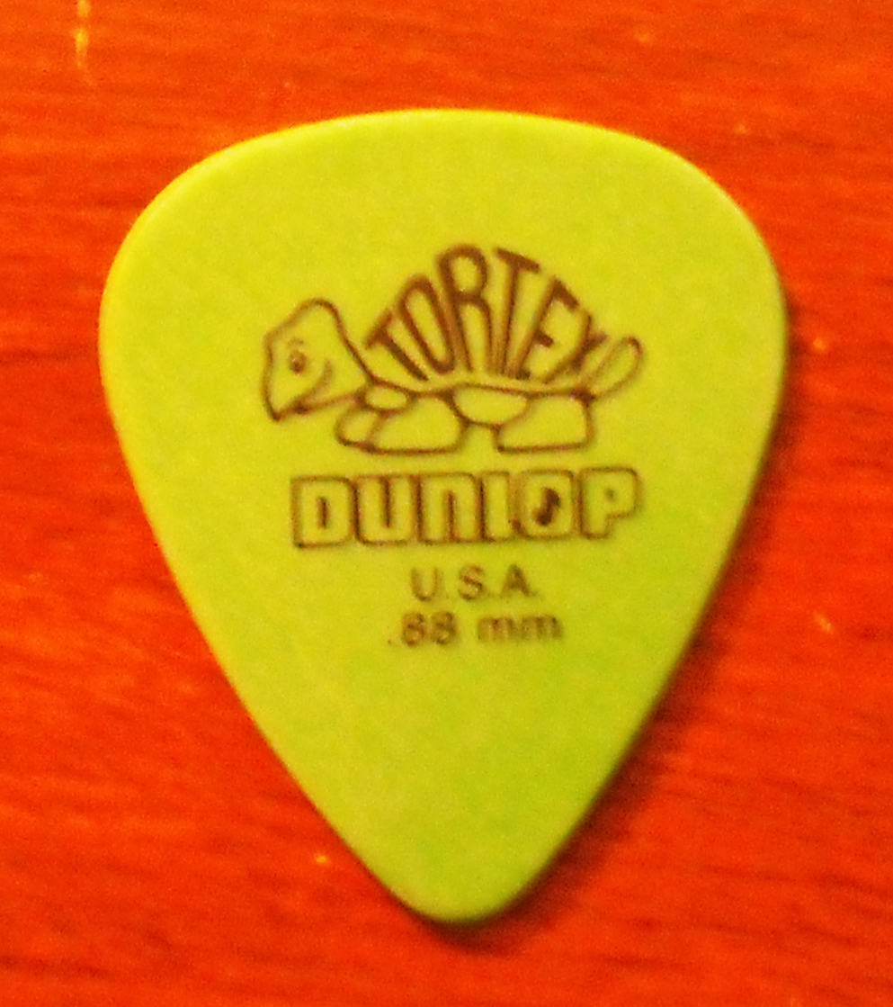 Tortex .88mm Pick